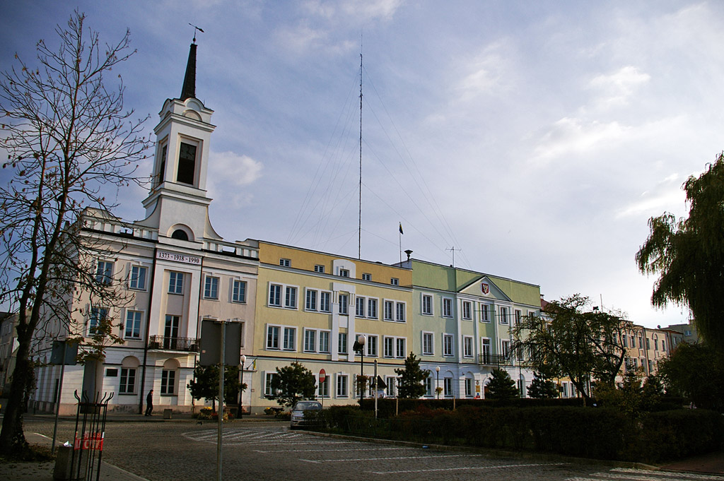 City of Ostroleka (Poland), town hall.